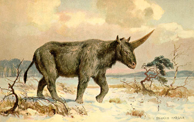 Elasmotherium